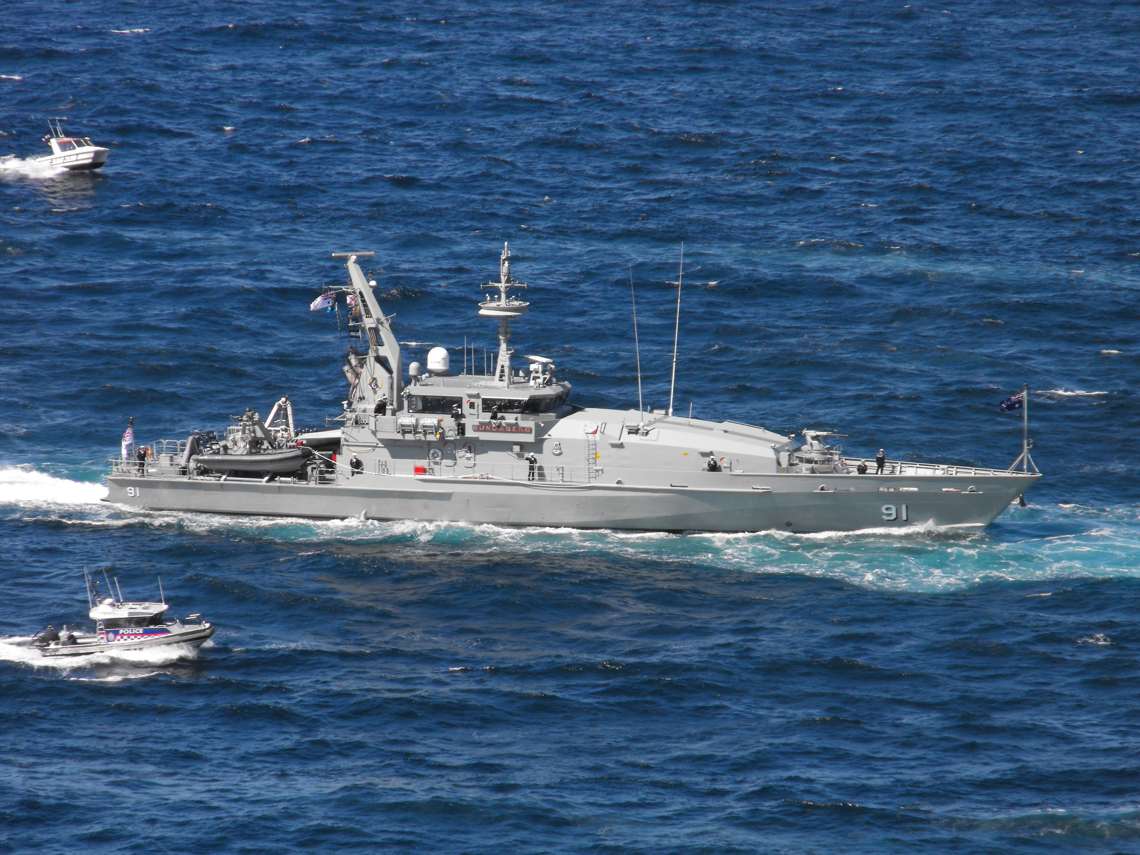 Photographs taken during day 2 of the Royal Australian Navy International Fleet Review 2013. The Australian patrol boat Bundaberg, escorted by police boats, entering Sydney Harbour